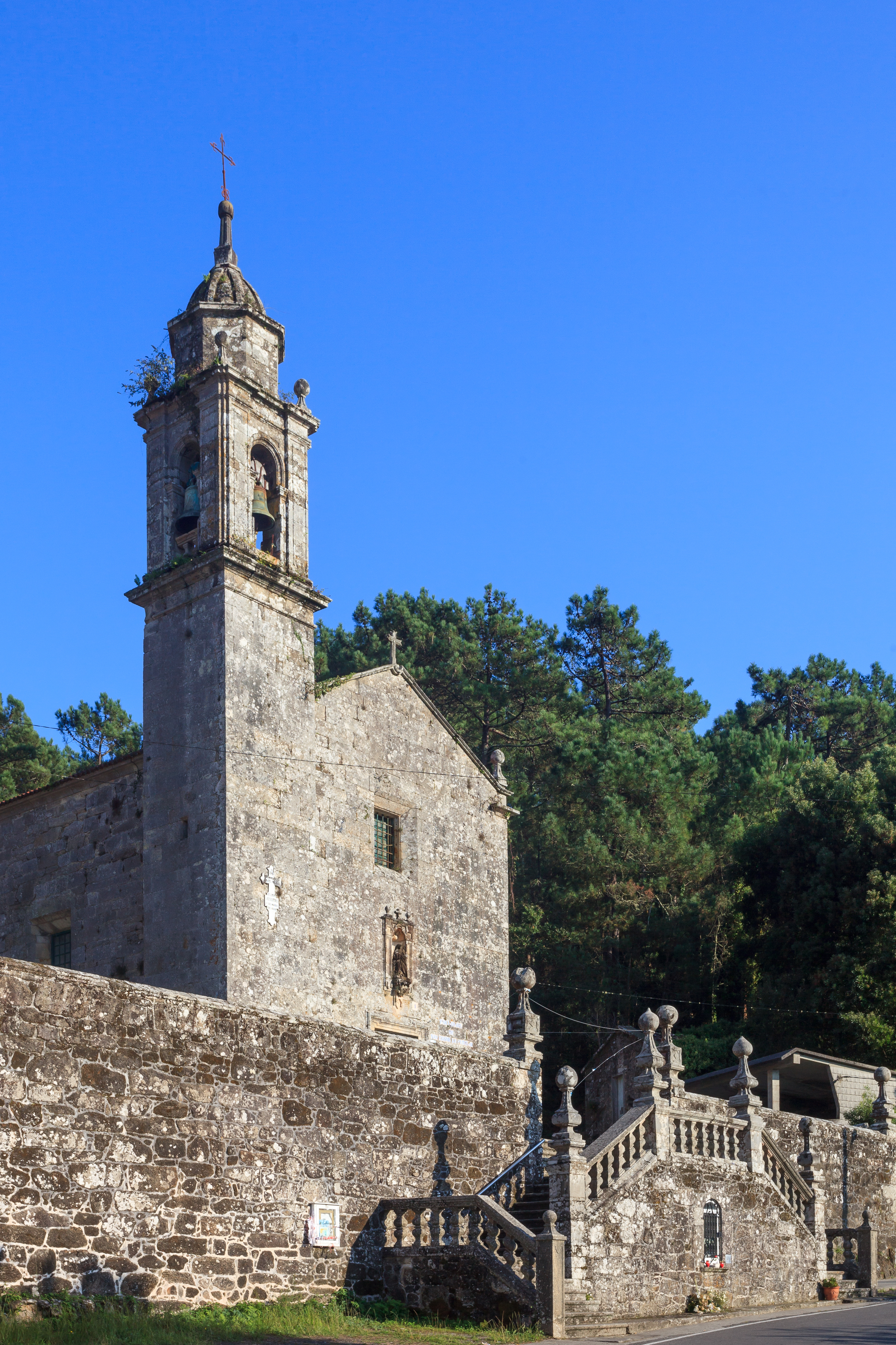 Outeiro, Outes, Galicia (Spain)